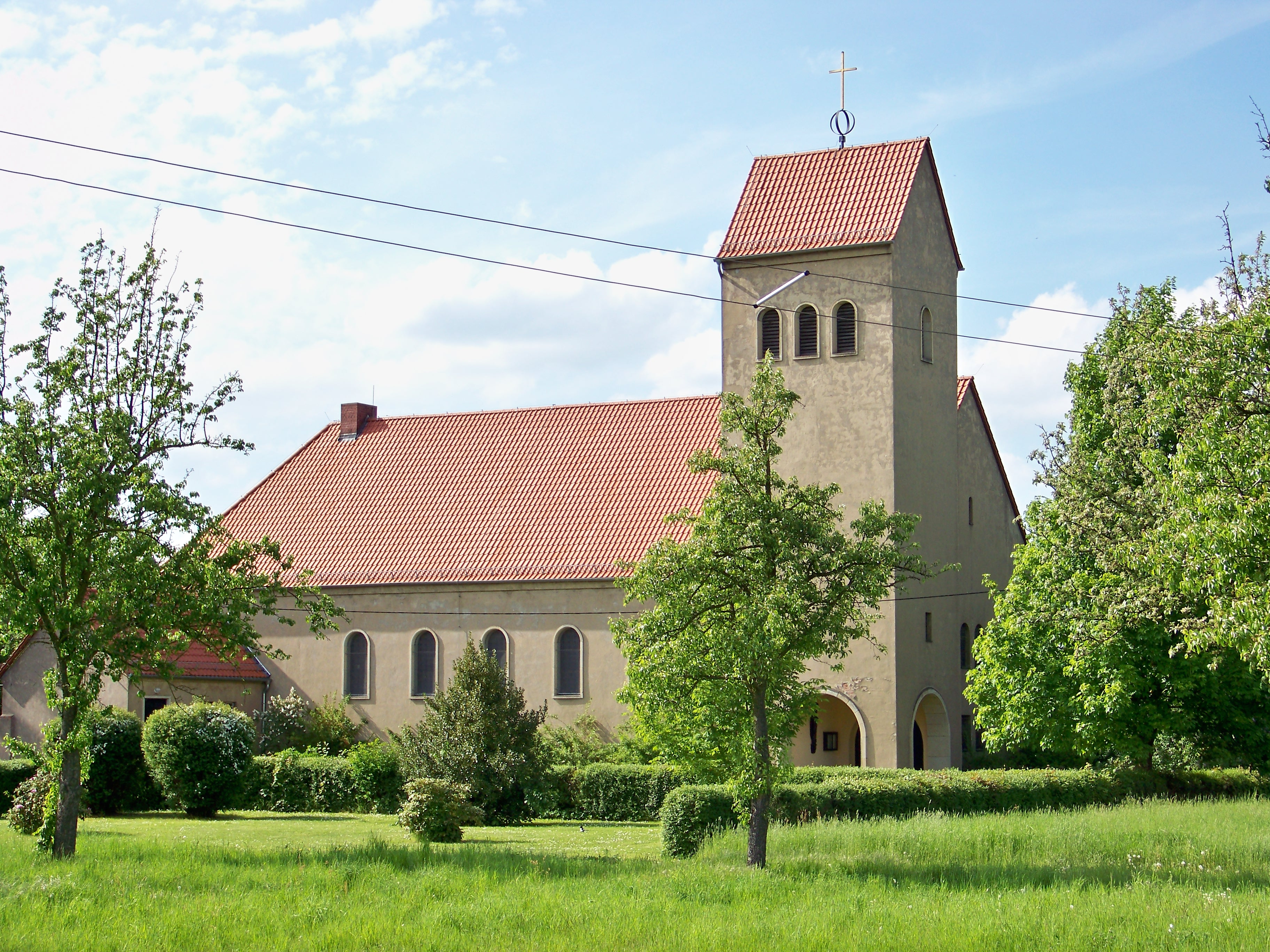 Church in Deutzen/Saxony/Landkreis Leipziger Land